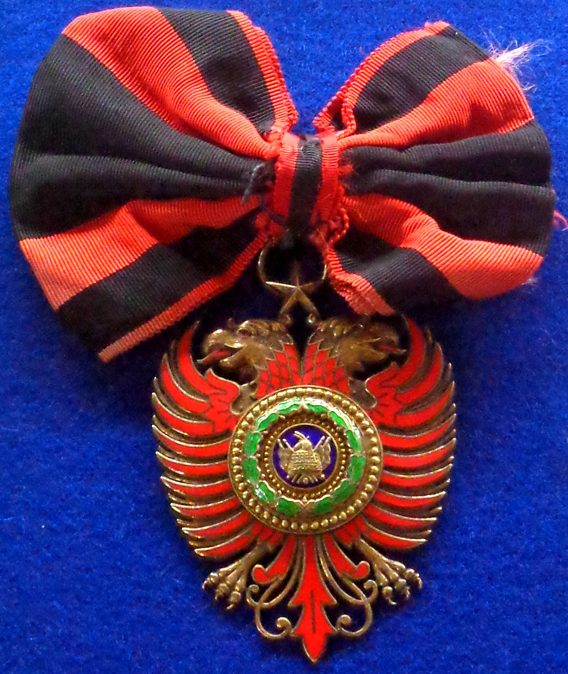 Order of Skanderbeg, badge of Grand Cross for Ladies, before 1939. Albania. The exhibition of the Tallinn Museum of Orders of Knighthood, Estonia.